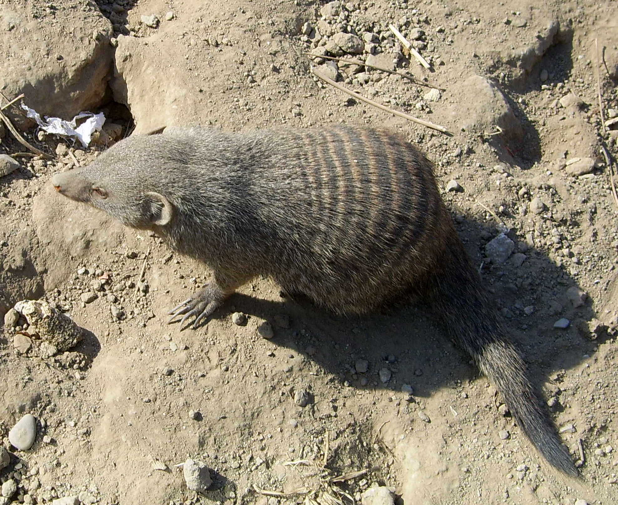 Banded Mongoose, 北京动物园的非洲獴